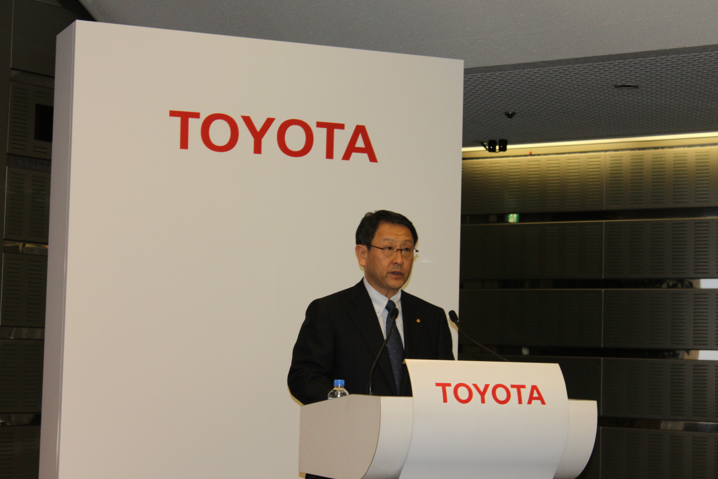 Akio Toyoda, President of Toyota Motor Corporation, at the annual results conference in Tokyo, May 17, 2011. Picture by Bertel Schmitt